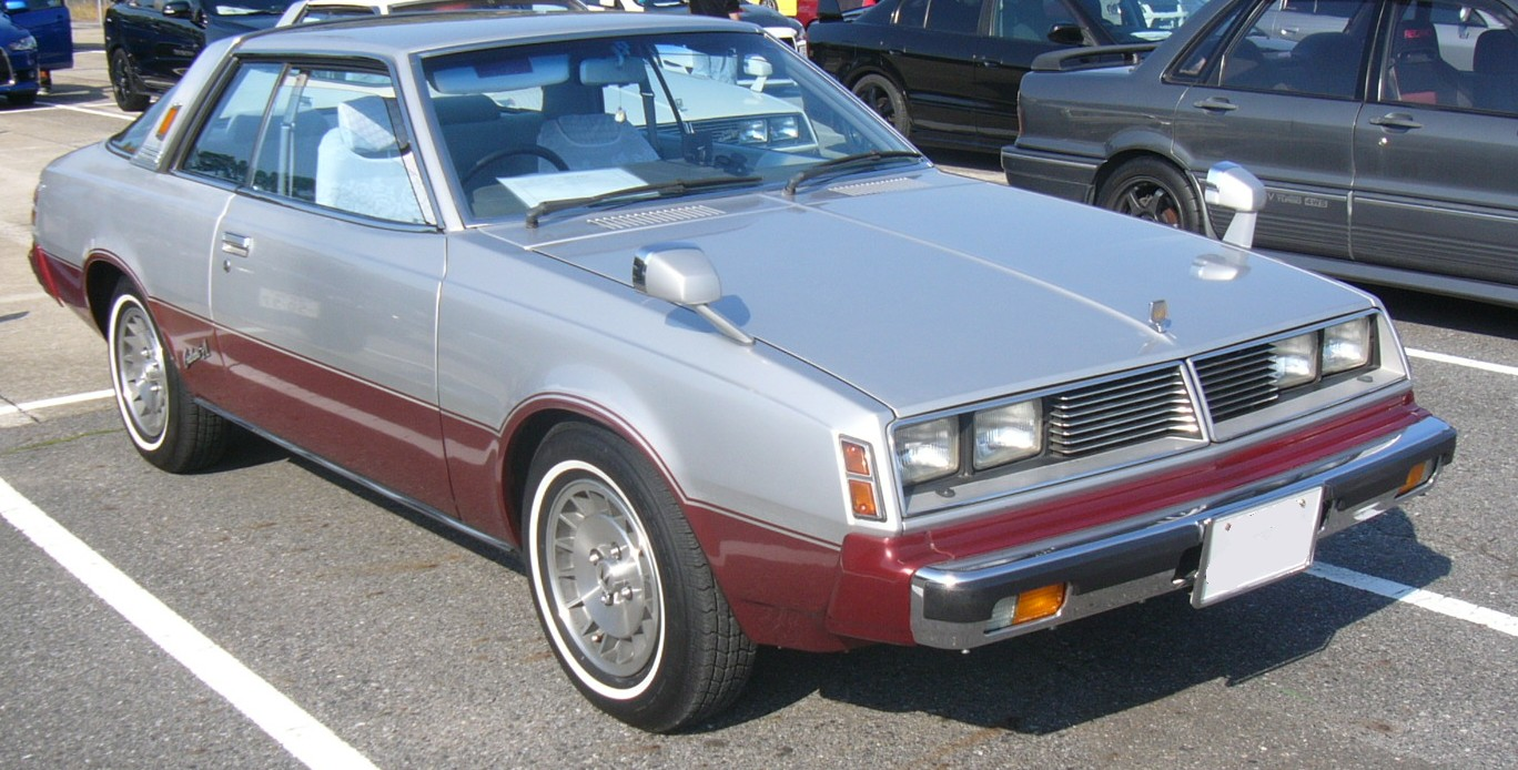 Mitsubishi Galant Λ 2600 Super Touring(A135A). Taken in 2013 MMF Okazaki. Two-tone body color option in the Japanese market at the time, it is extremely rare in Japan at present.